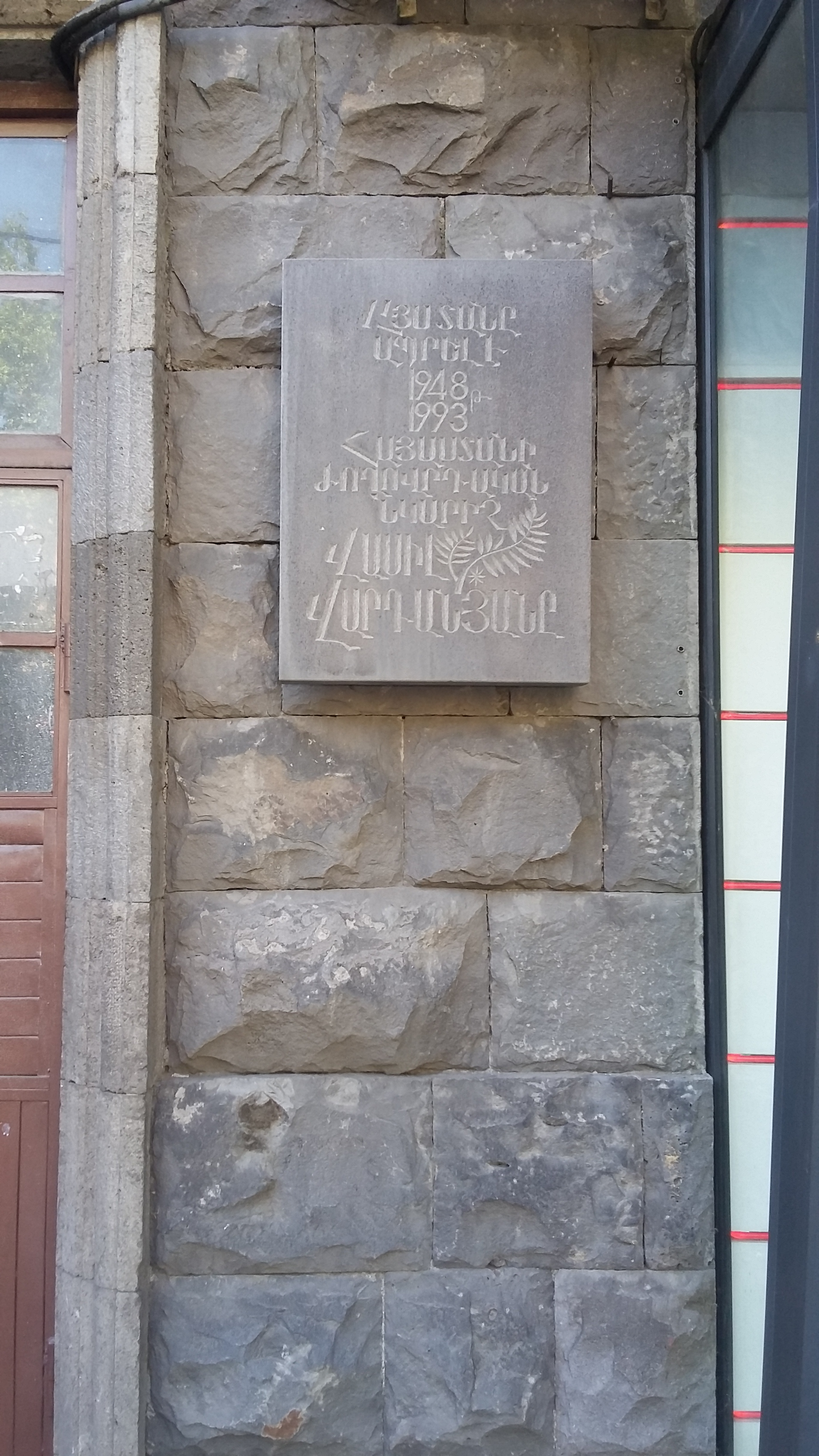 Mashtots Avenue, Yerevan